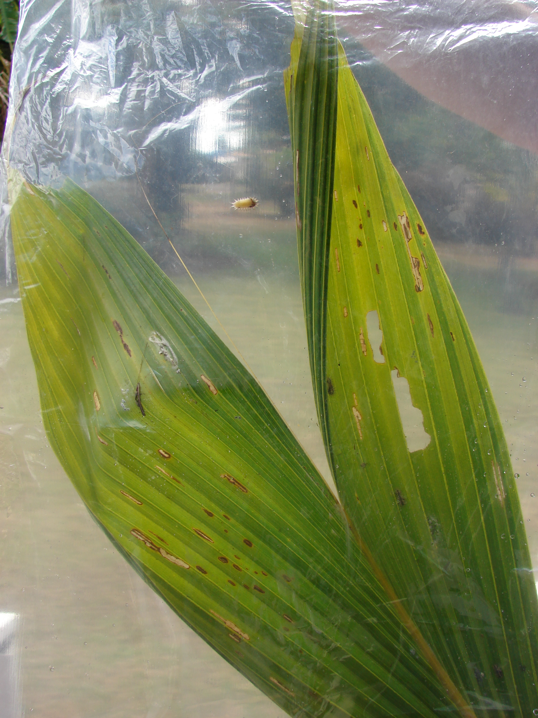 Cocos nucifera (with Darna pallivitta from Haiku). Location: Maui, Makawao